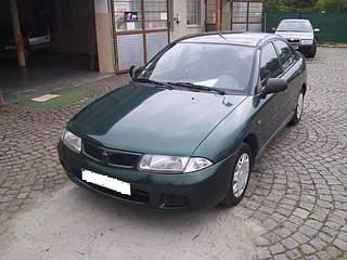 Mitsubishi Carisma first generation